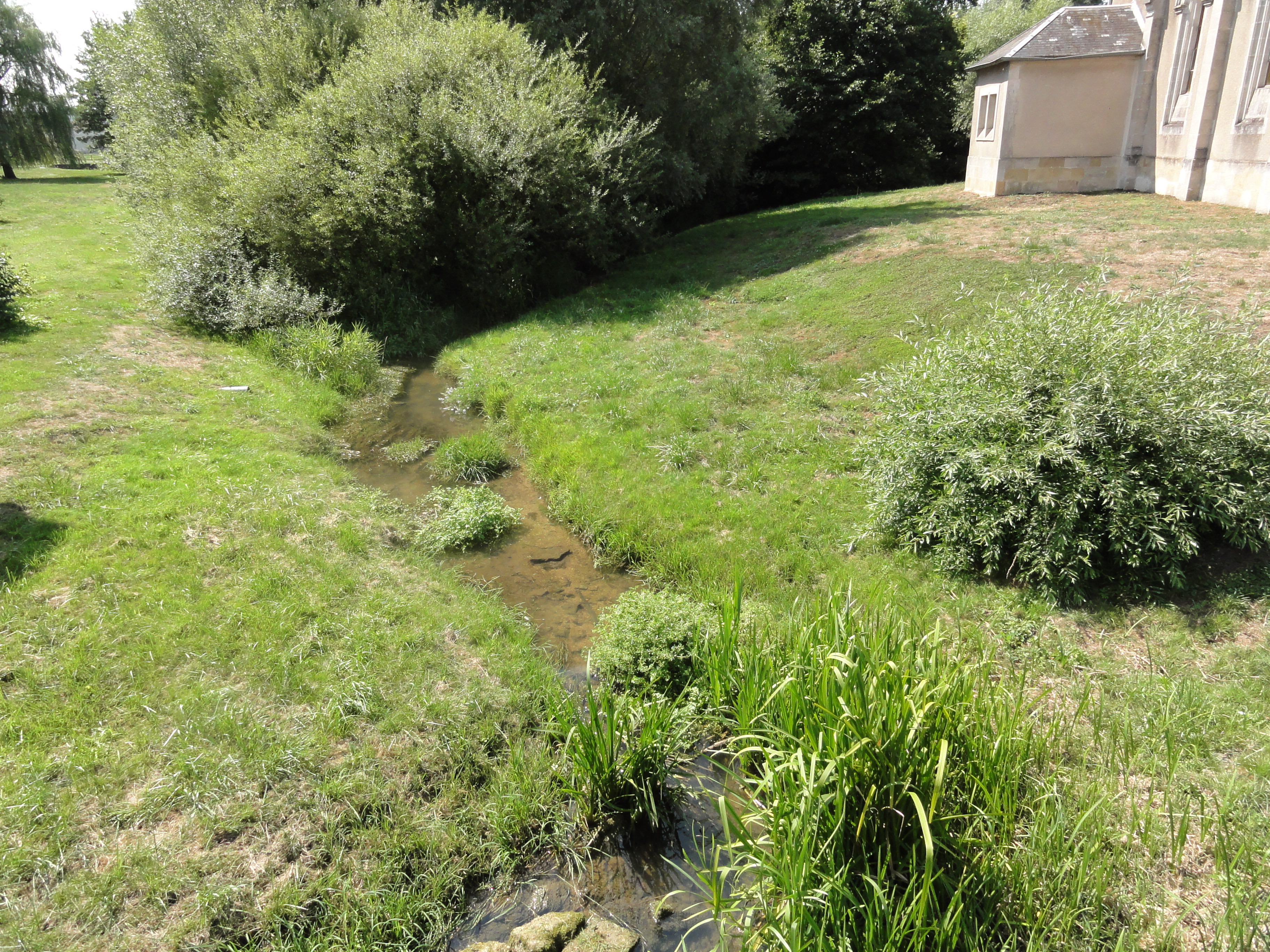 Moranville (Meuse) Eix (rivière)